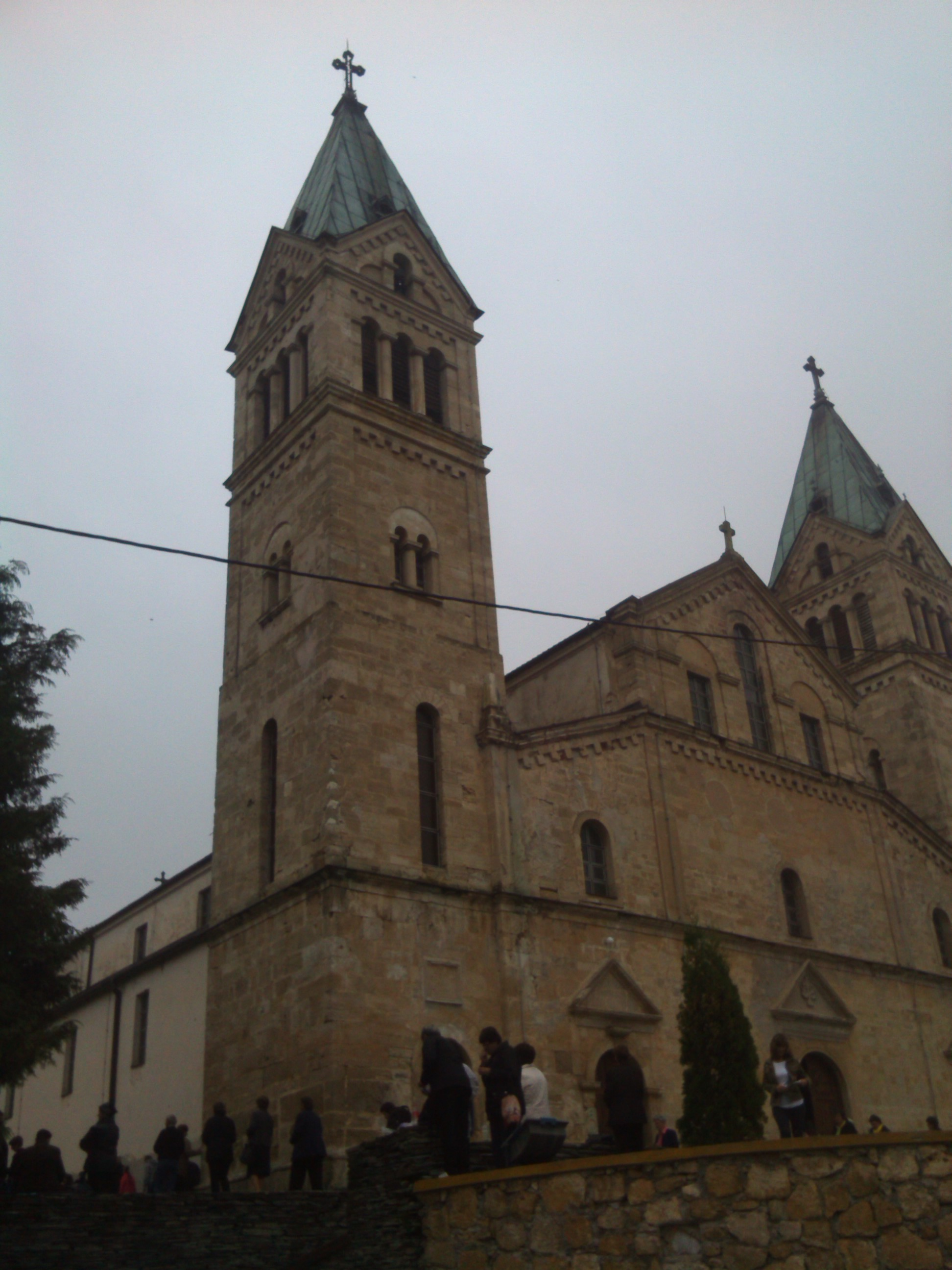 Church and monastery in Guča Gora